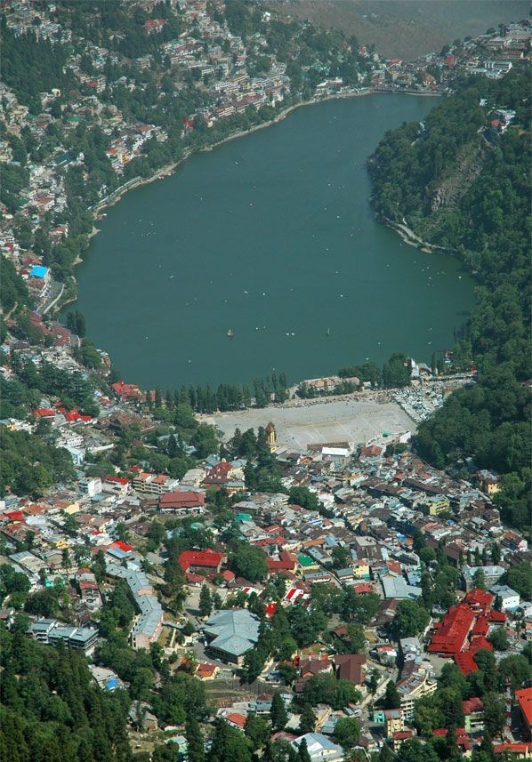 Nainital Hill station, India